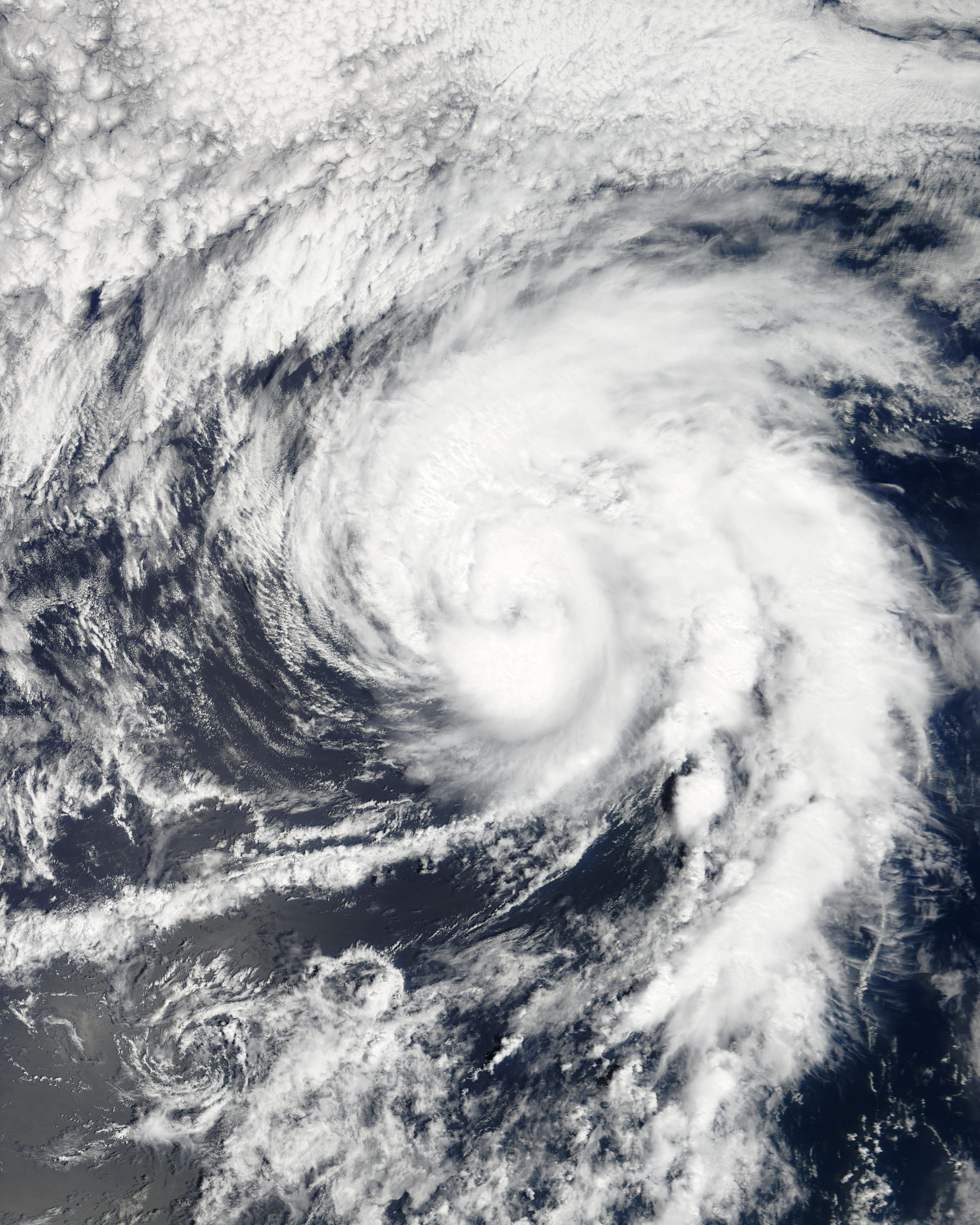 Hurricane Lane, on September 17, 2012